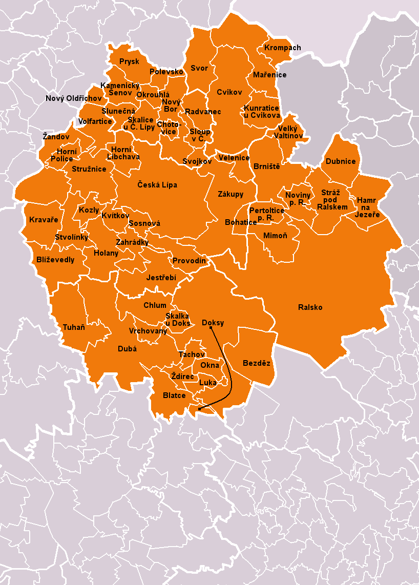 Municipalities of Česká Lípa District as of January 1, 2011 (57 municipalities in total). White lines of variable thickness show boundaries of municipalities, administrative areas, districts, regions and nations.